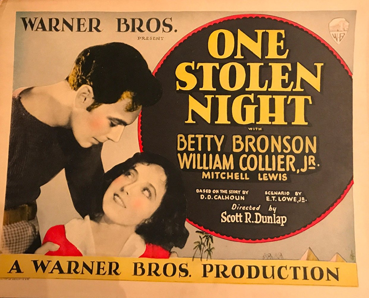 This is a lobby card of the American adventure crime film One Stolen Night (1929).